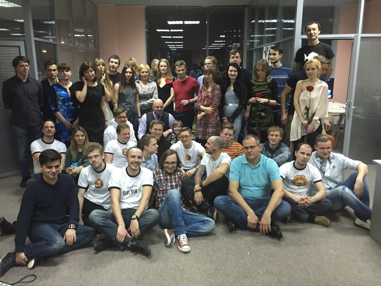 LinguaLeo team